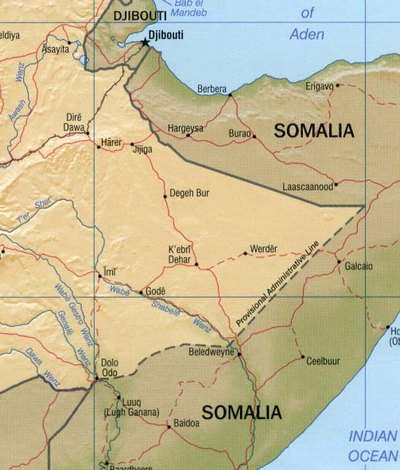 Shaded relief map of Ogaden, Ethiopia